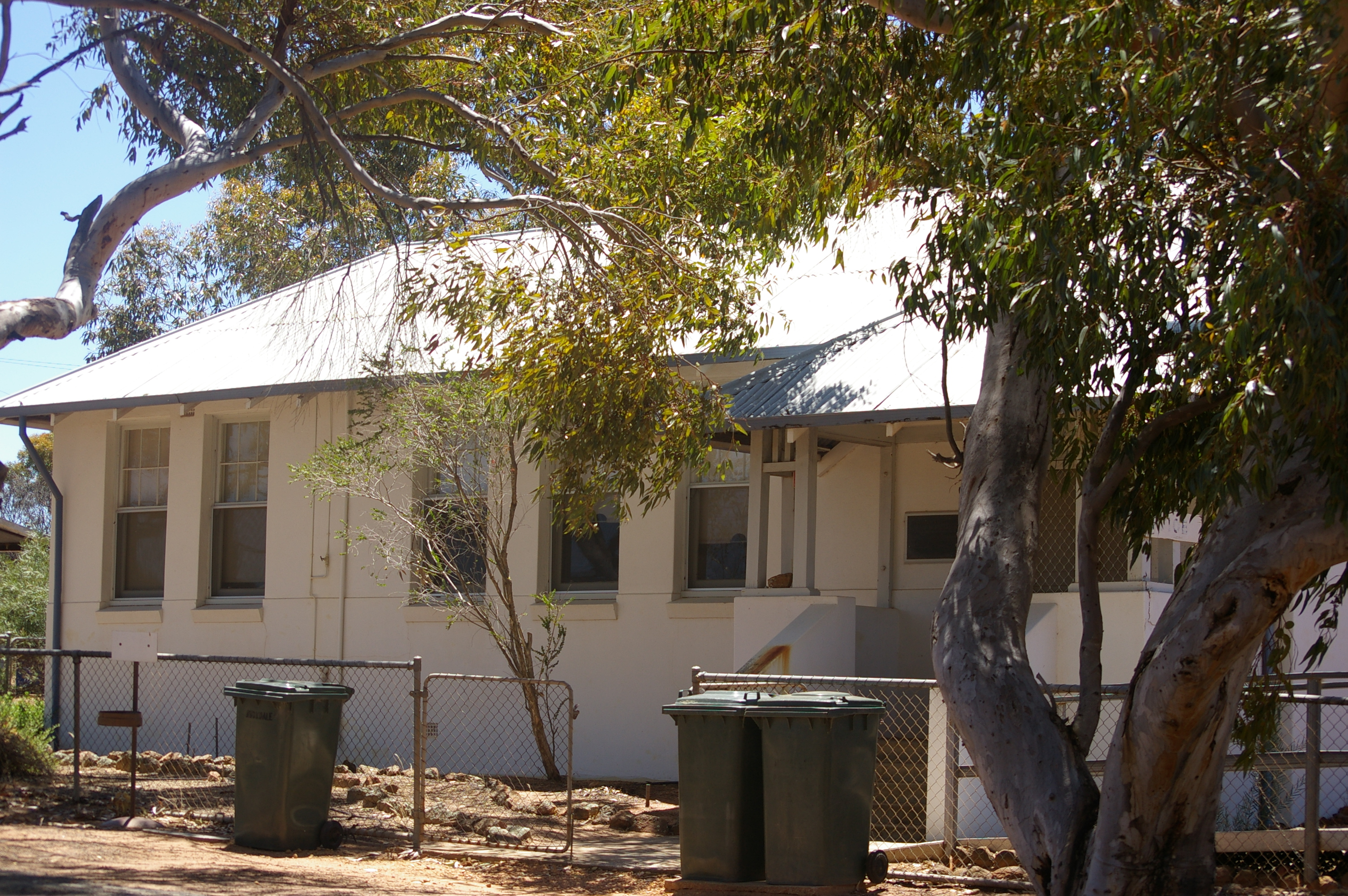 Taken on the Avondale Agricultural Reasearch Station Laboratory built for Harold William Bennetts where he developed the enterotoxaemia vaccine